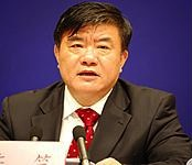 Chen Zhu (Chinese: 陈竺) Chinese Minister of Health